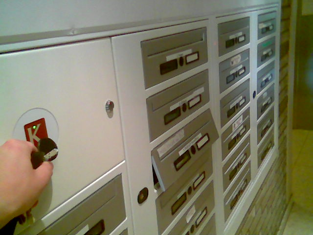 Intelligent house or intelligent home: Here a remote controlled letter box opener.